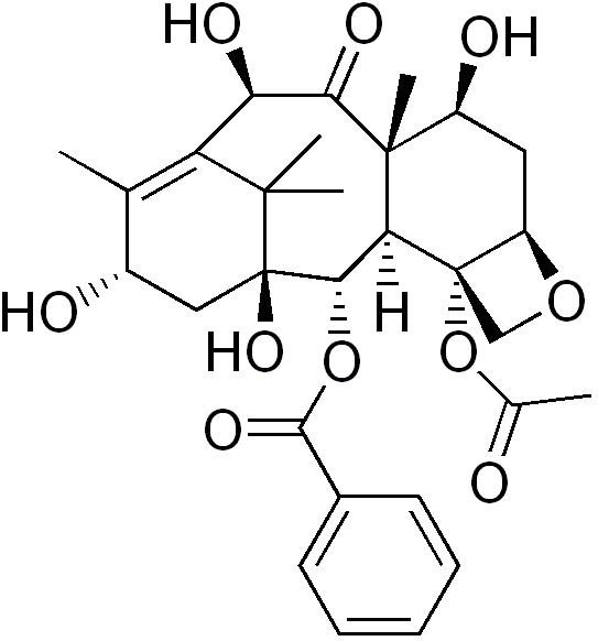 Chemical structure of 10-deacetylbaccatin III